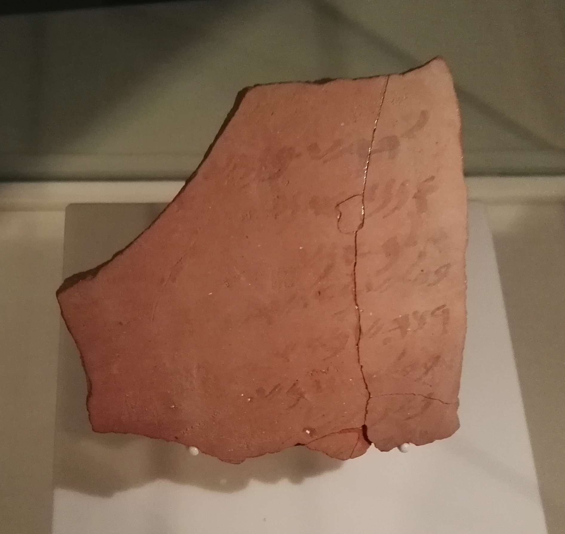 Museum of Philistine culture, Ashdod, Israel.